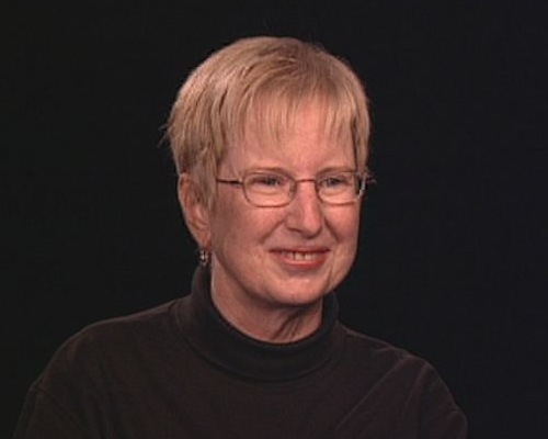 Photograph of Marty Goddard, an American activist credited for conceptualization and development of the Sexual Assault Kit (AKA Rape Kit) for evidence collection and its protocol.